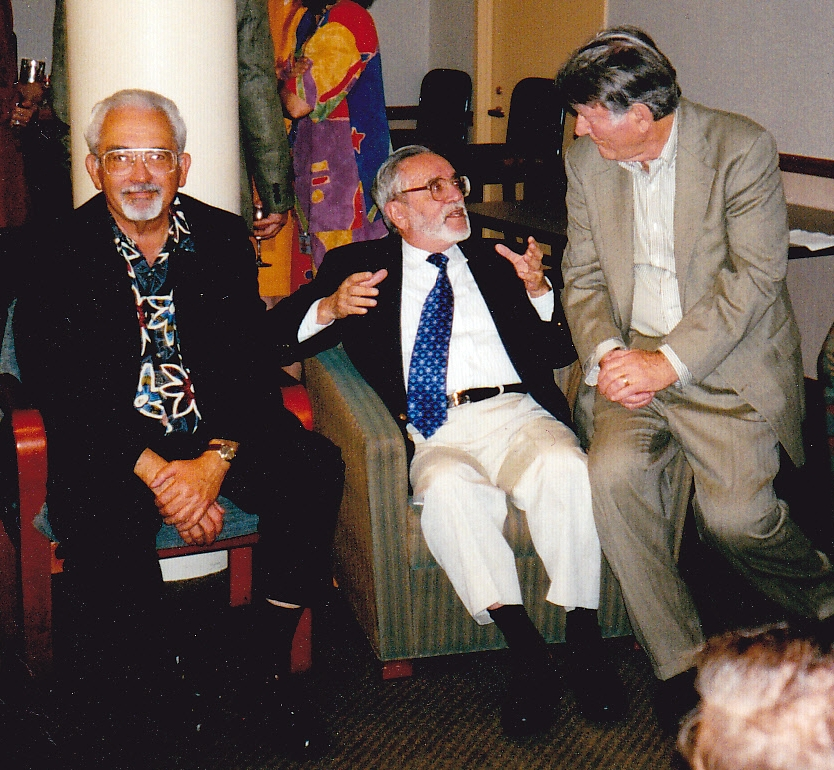 Braulio Montalvo, Salvador Minuchin, and Jay Haley were friends and colleagues whose work helped to create and shape the field of family therapy, photograph by James Keim